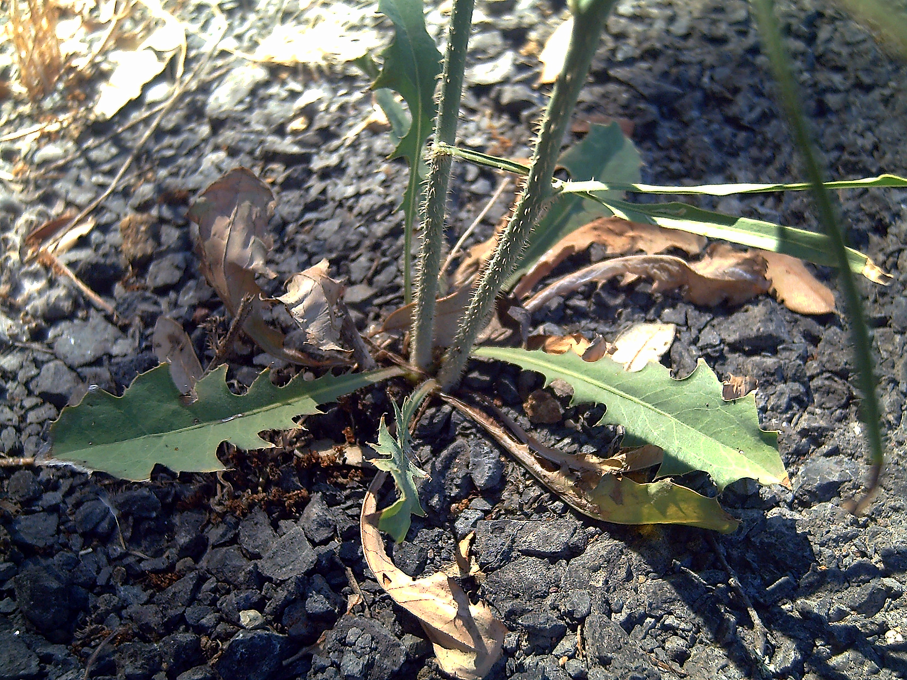 Chondrilla juncea stem and leaves, Fuente San Lorenzo, Sierra Madrona, Spain